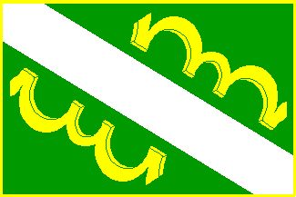 Flag of Maunabo, Puerto Rico